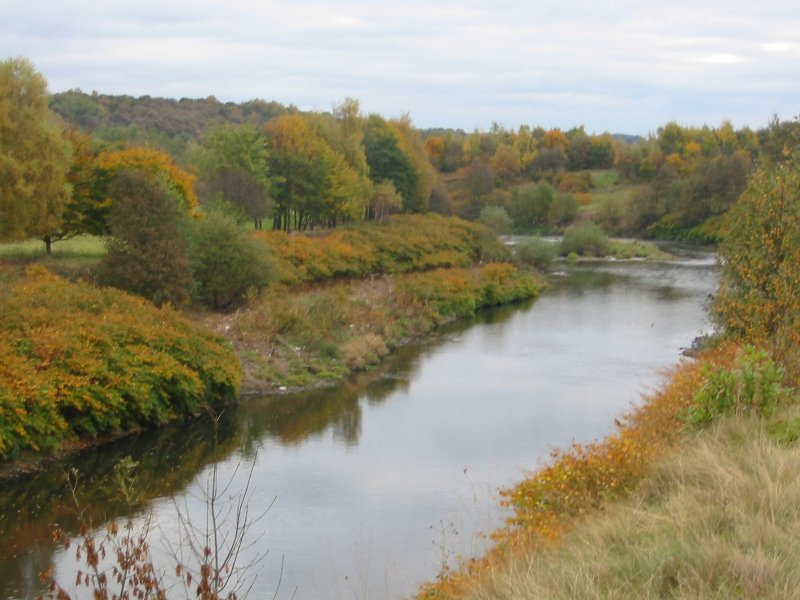 View of the River Croal just before it meets the River Irwell in Kearsley, Bolton, UK. Taken by Geotek, September 2003